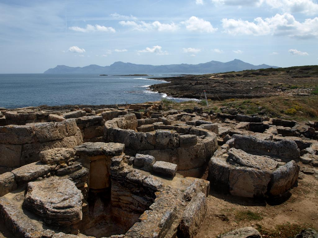 Mallorca (Spain), Son Real, necropolis, photo 2008